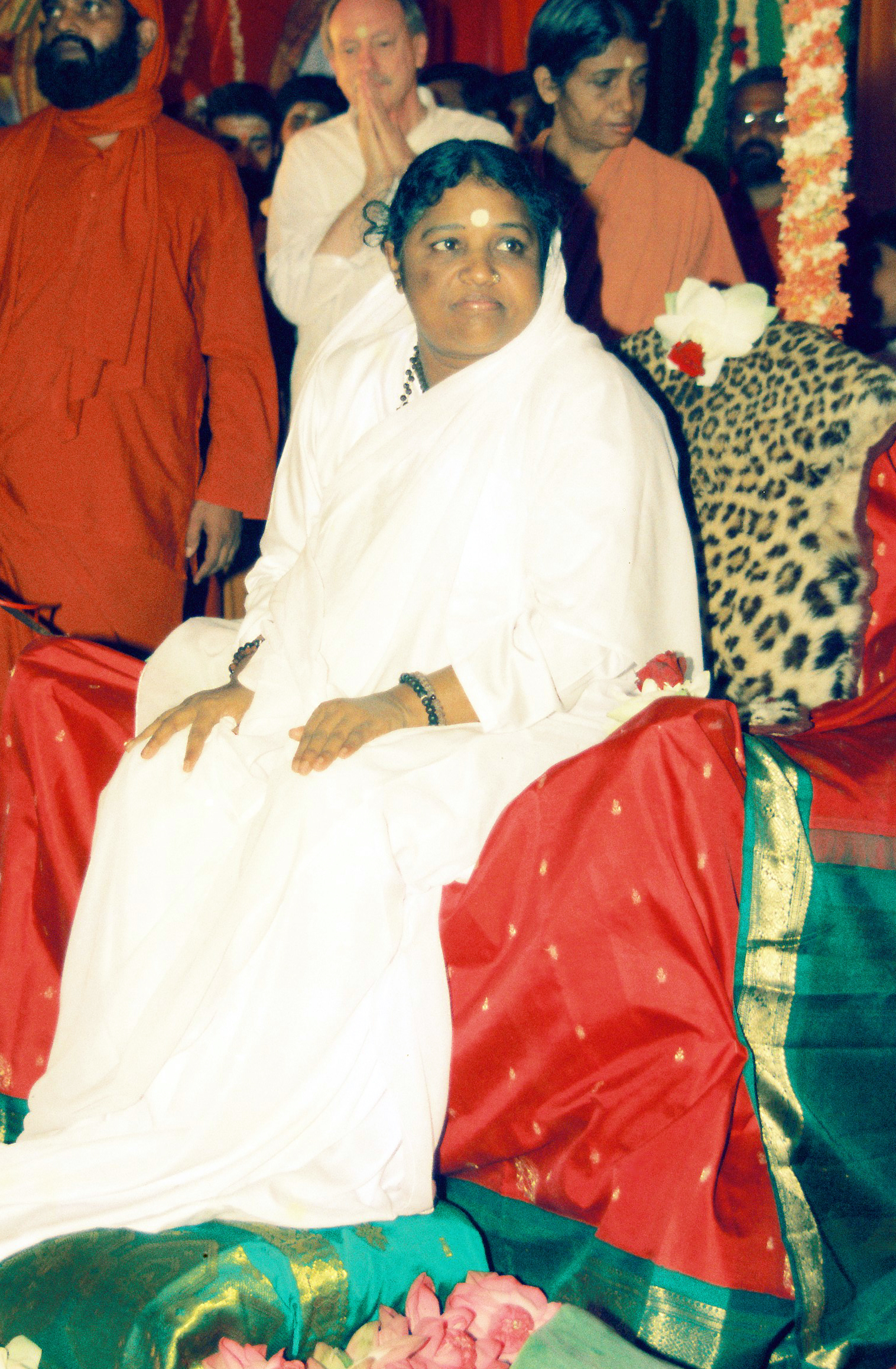 Mata Amritanandamayi